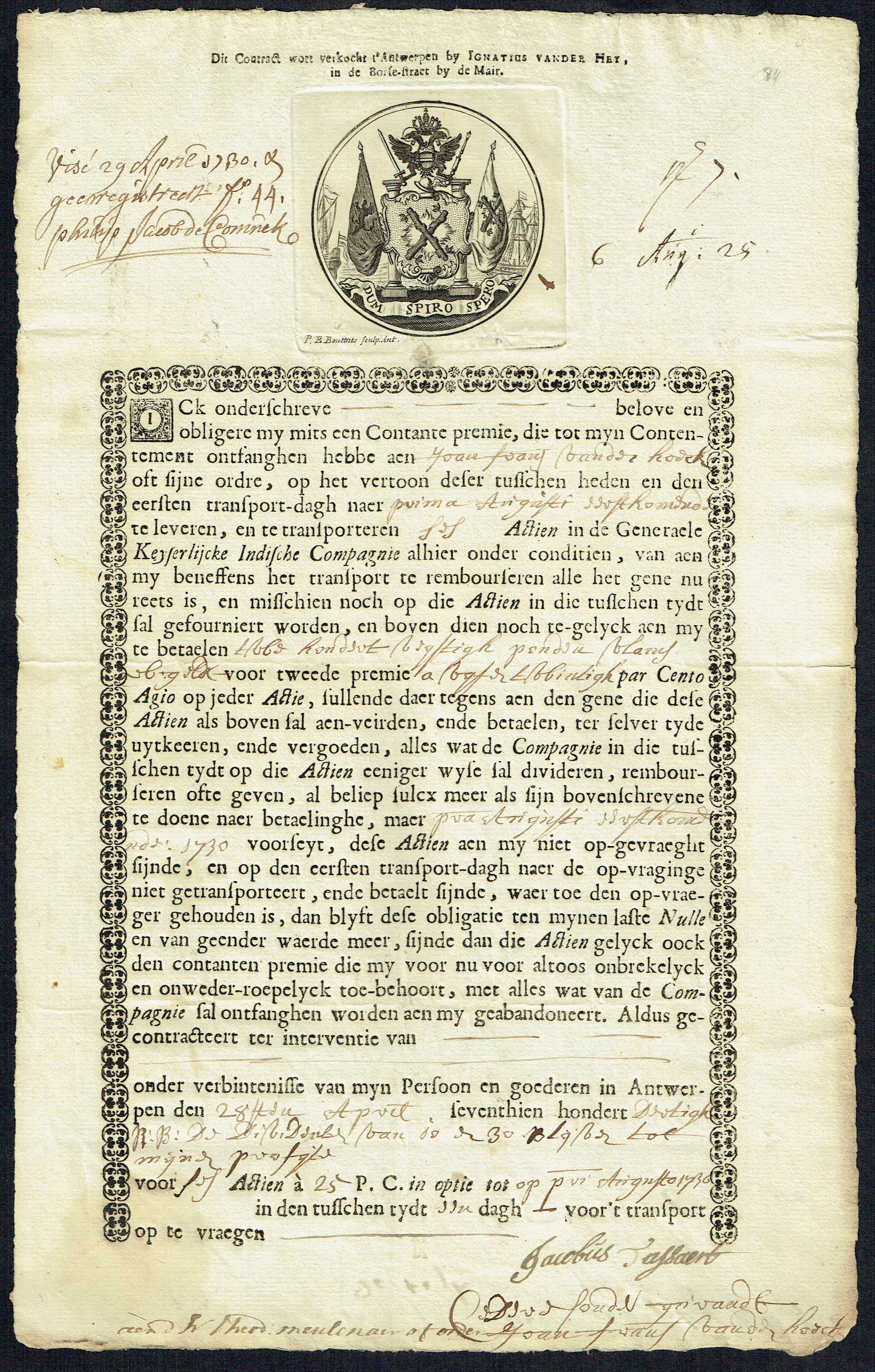 Warrant of the Generale Keizerlijke Indische Compagnie, issued 28. April 1730